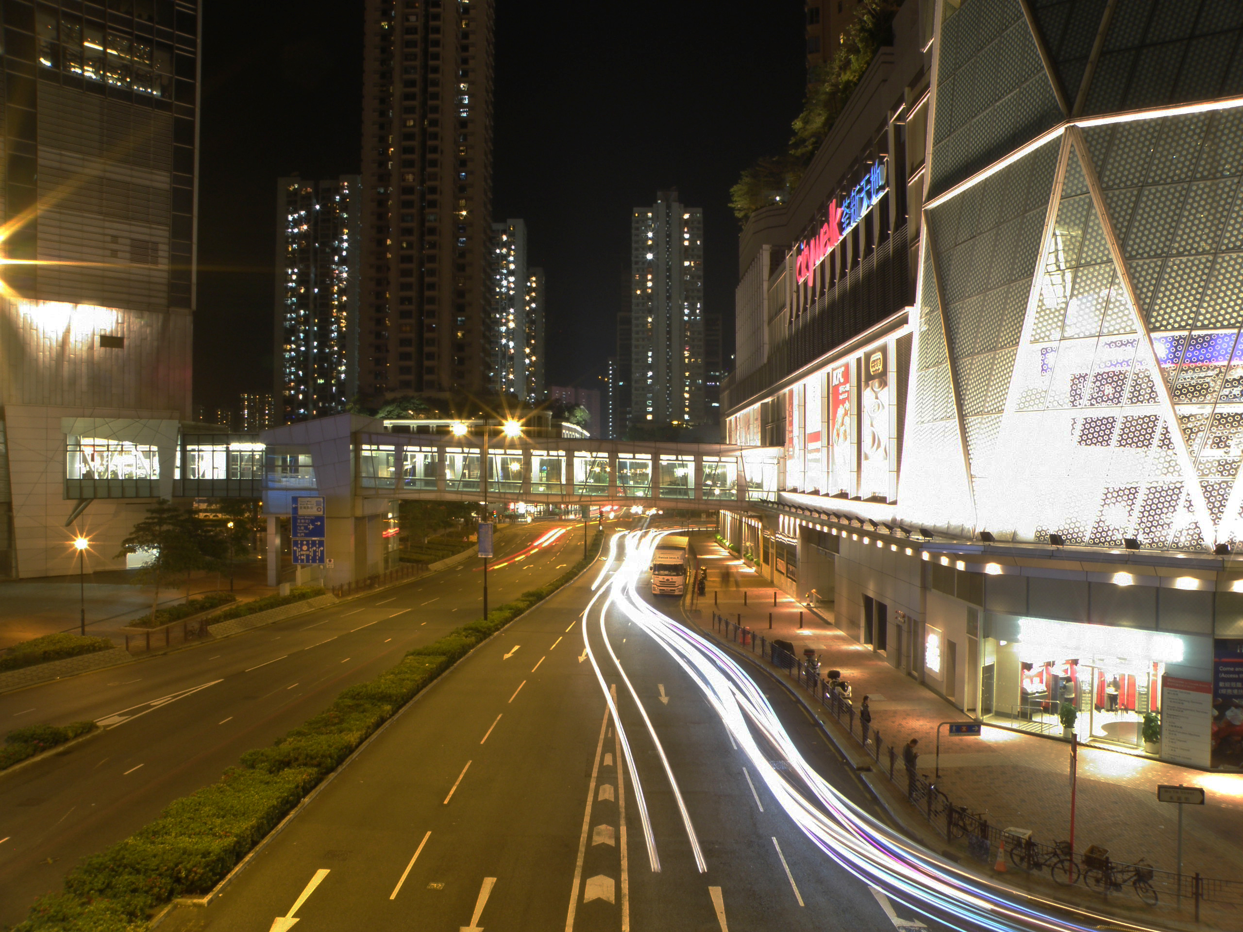 Yeung Uk Road in Tsuen Wan, Hong Kong.